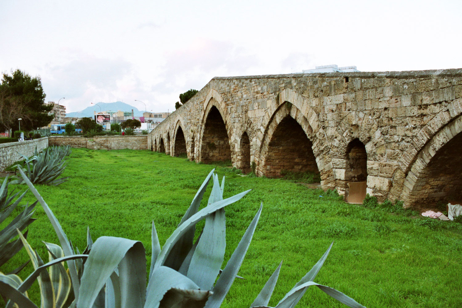 Ponte dell'Ammiraglio, Palermo. Medieval bridge over river Oreto, now about 100m away from the river